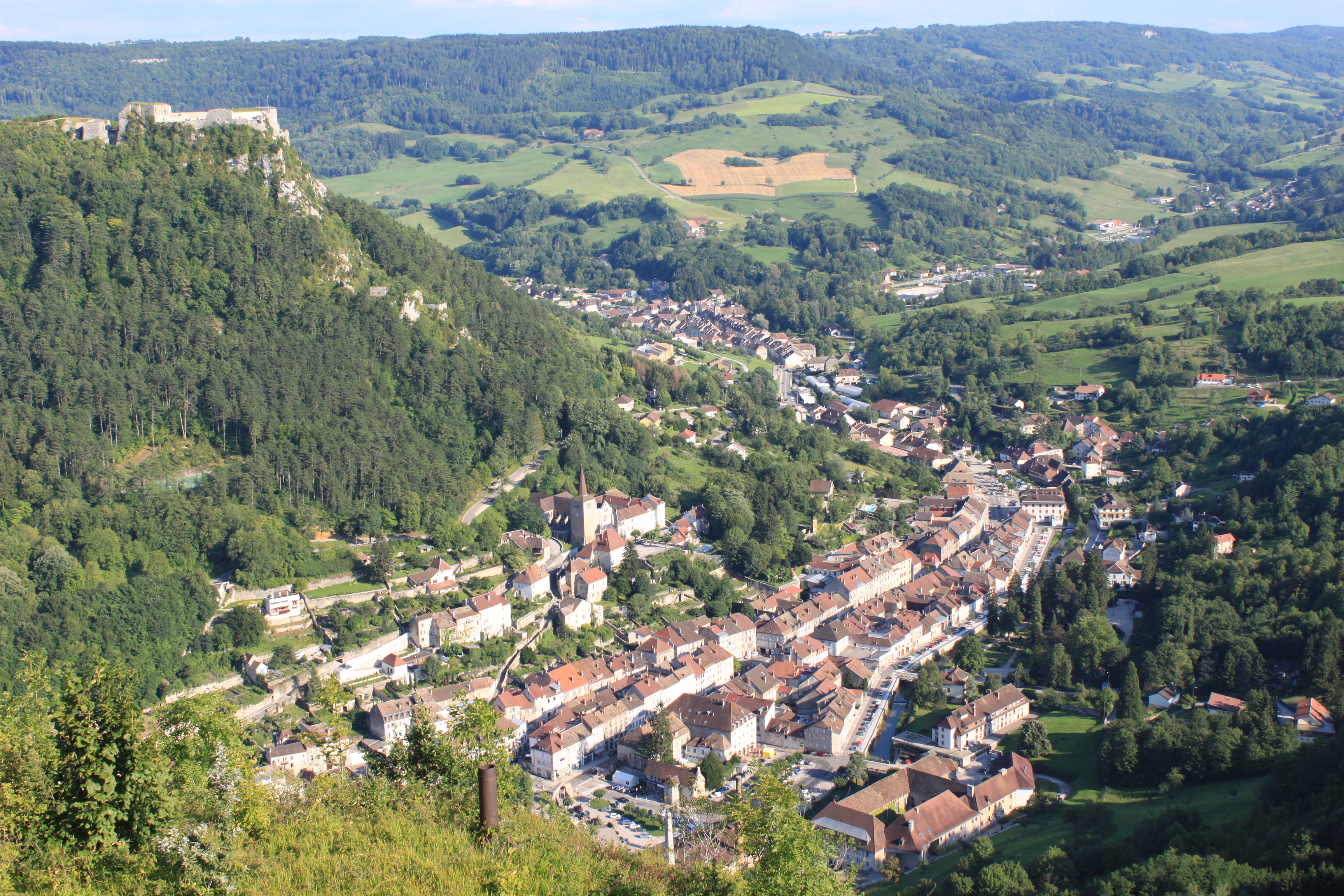 Salins-les-Bains, Jura, France